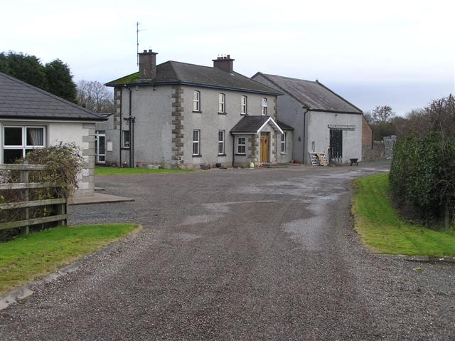 Former Railway Station, Beragh Looking ESE